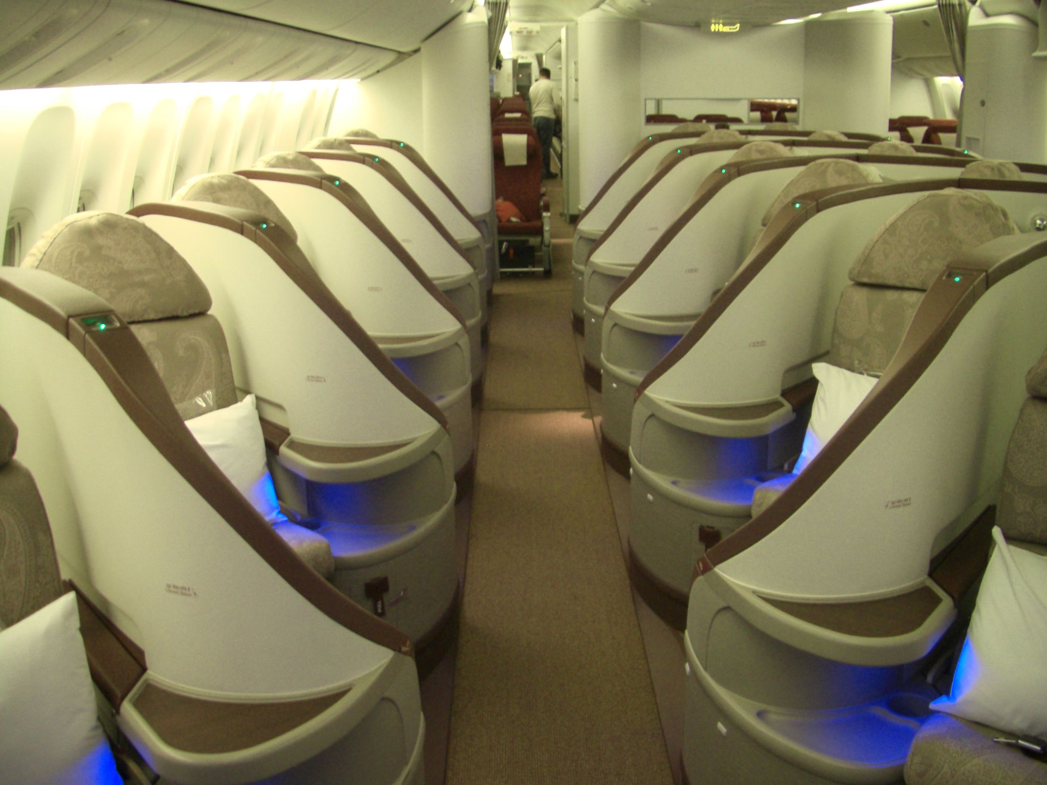 product wise, this is clearly on par with Singapore Air's new business class. Enormous screen, good VOD system, incredible legroom and facilities. Special mention to the food and drinks, i don't like champagne but Dom Perignon 1998 isn't something you can't refuse... In terms of service, it's good, but not outstanding. they still need to "polish" their crew. But overall, the secondbest flight experience i had this year.